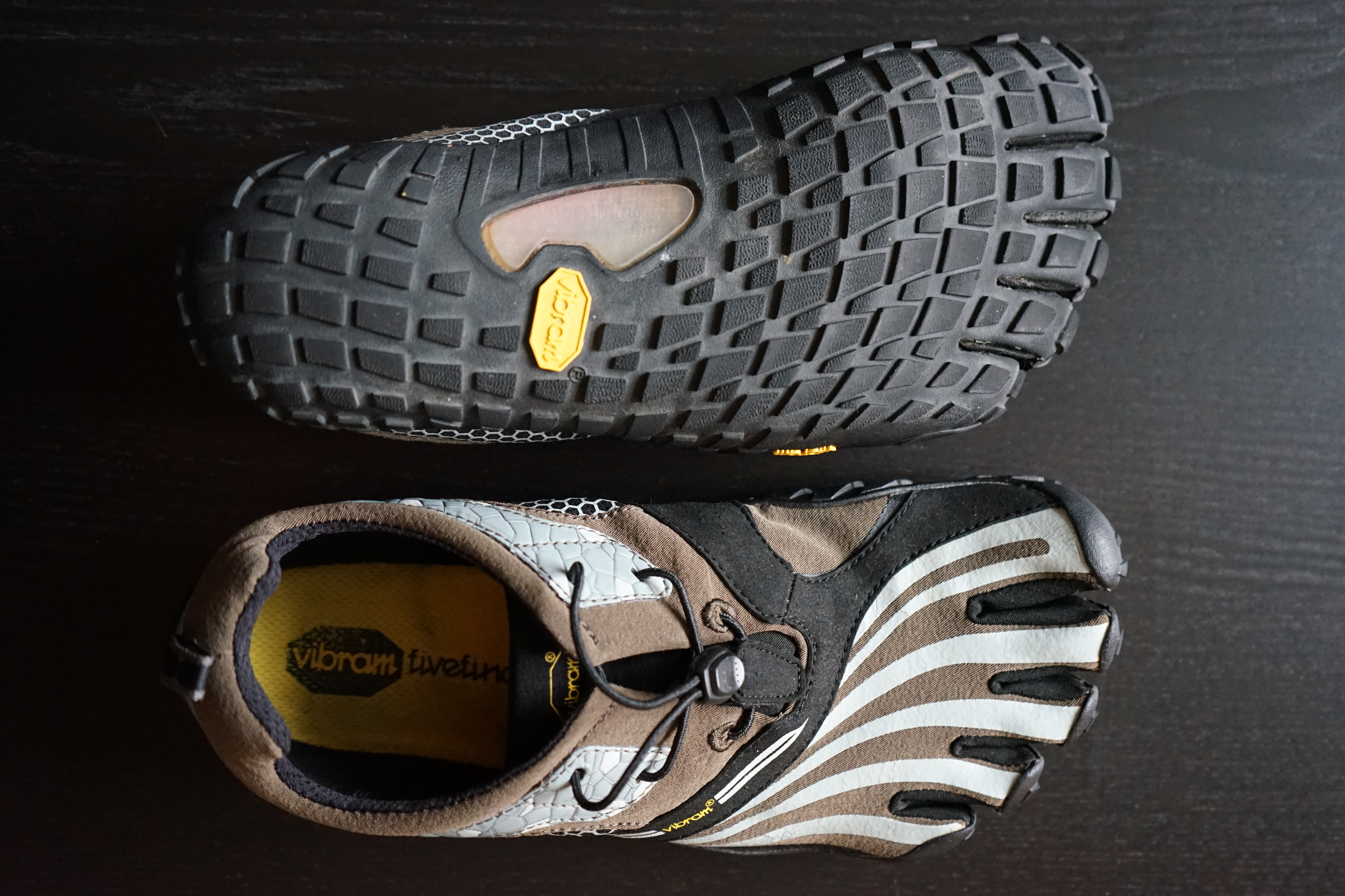 Vibram FiveFingers Spyridon LS Green/Grey/Black (13M3303)